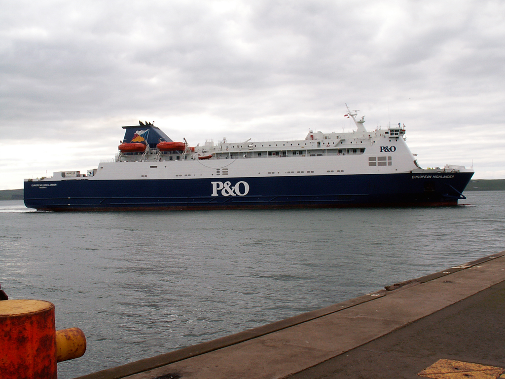 European Highlander swings off the berth in Cairnryan, Spring 2005. (C) Allan Doyle IMO-number: 9244116 MMSI-number: 311404000 Roepnaam: C6SN6 Length: 161 m Beam: 25 m